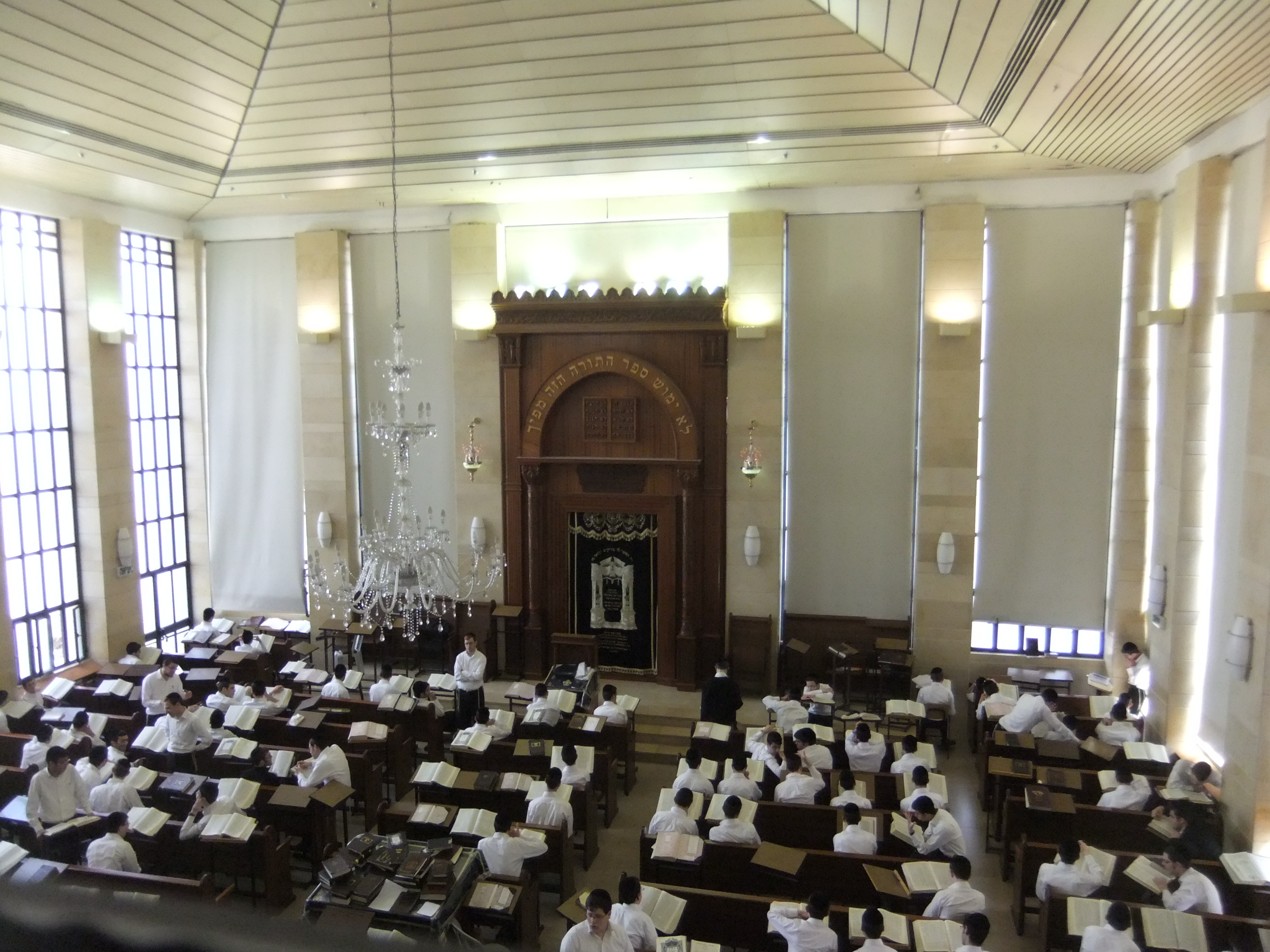 Ohr Yisrael Yeshiva Petach Tikva